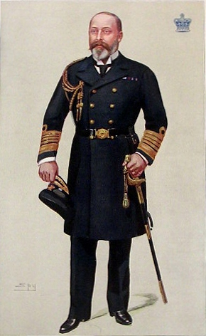 Caricature of HM King Edward VII. Caption read "His Majesty the King".